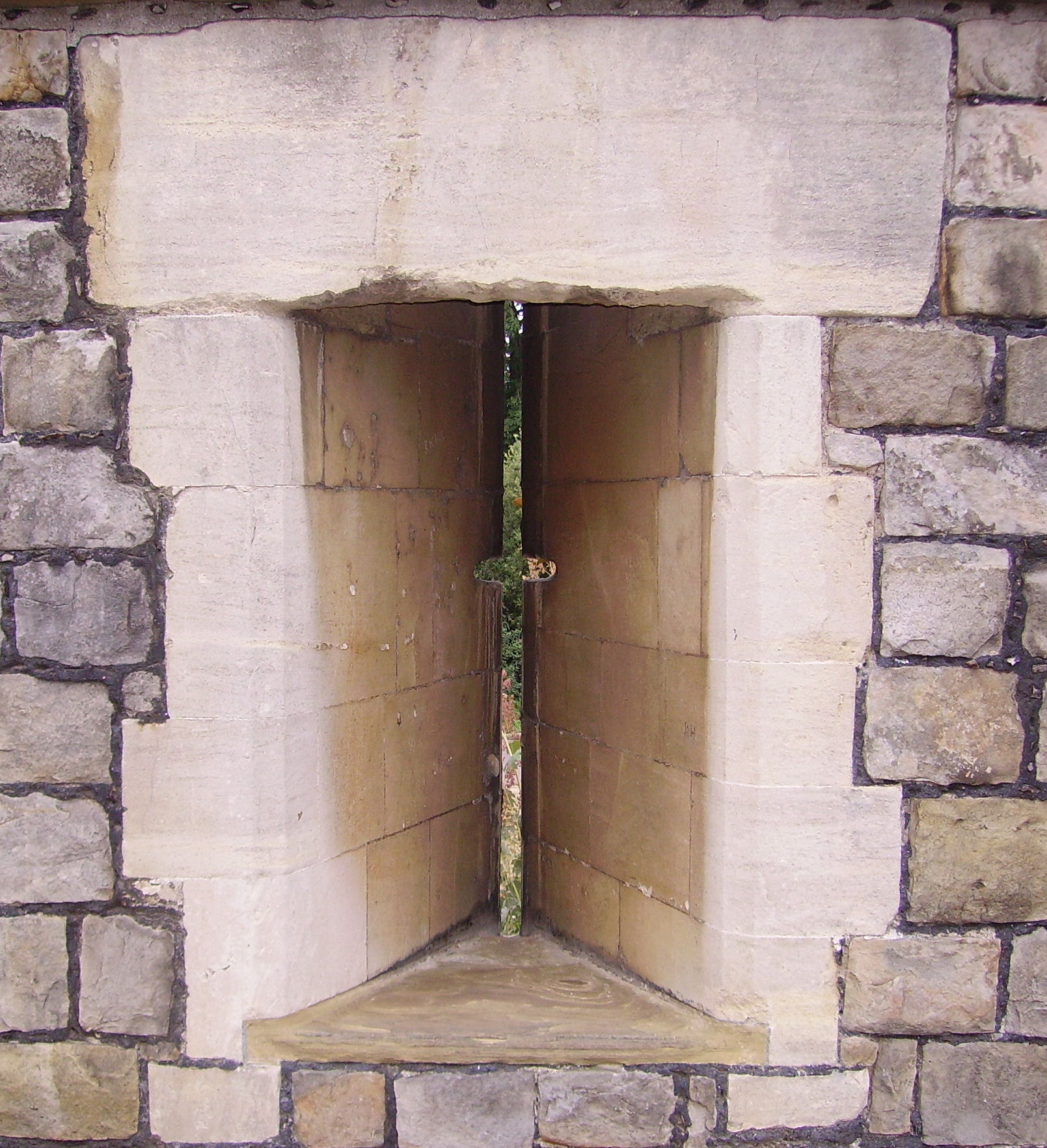 Embrasure (defensive slit window) in stone wall, at Windsor Castle in Windsor, United Kingdom